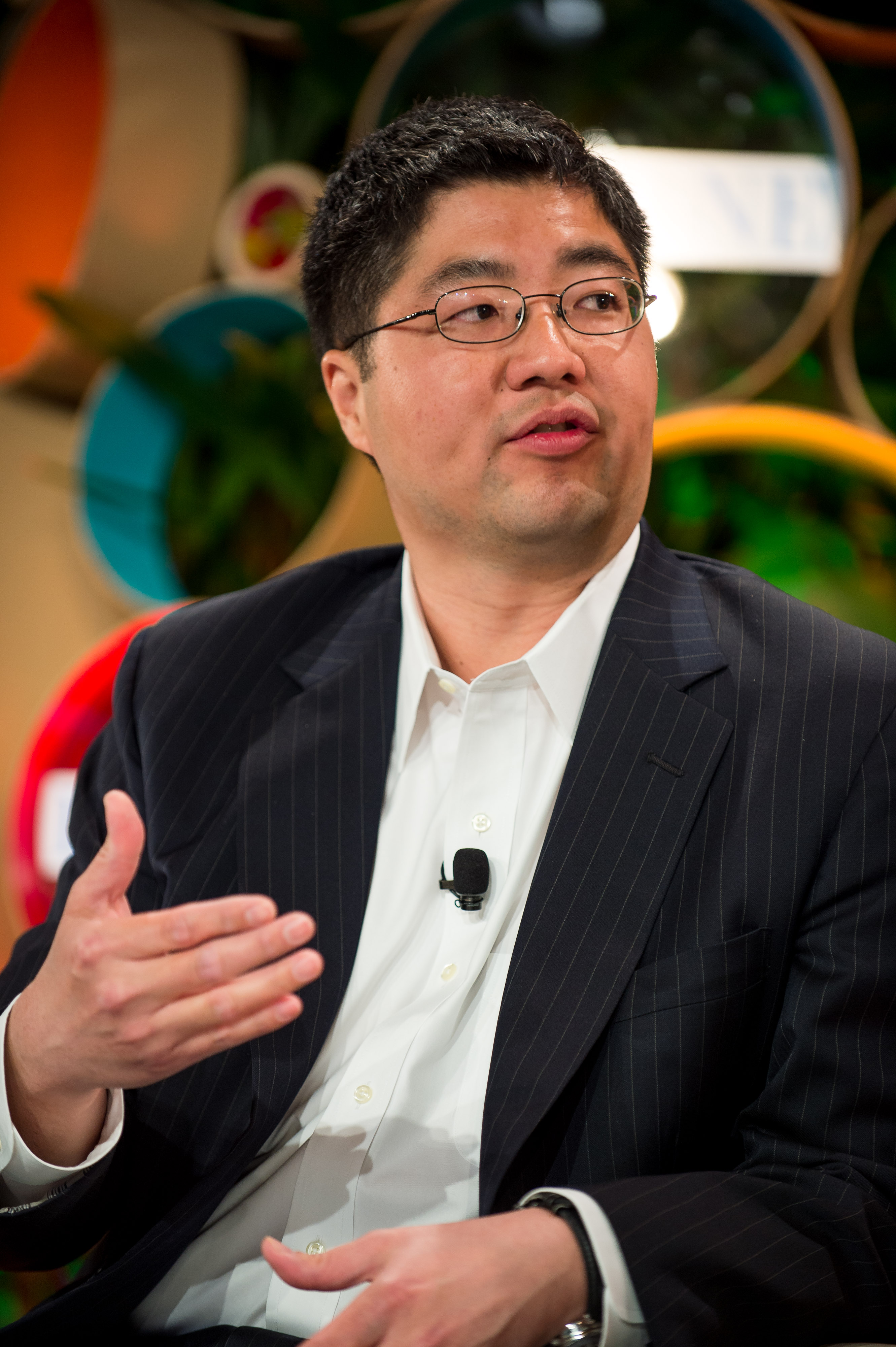 Monday, April 16, 2012 Brainstorm Green, Laguna Niguel, CA, USA 3:45 PM THE GREEN CONSUMER: HOW NEW MEDIA IS CHANGING THE GAME Facebook, Google+, LinkedIn, and other digital networks provide companies with new ways to reach customers and steer them toward more sustainable consumption. What works and what doesn’t? How does social networking compare with traditional marketing channels? Discussion leaders: Scott Griffith, Chairman and CEO, Zipcar Jonathan Hsu, Chief Executive Officer, Recyclebank Barry Judge, Chief Marketing Officer, Best Buy Bea Perez, Chief Sustainability Officer, Coca-Cola North America Moderator: Poppy Harlow, Anchor, Photograph by Stuart Isett/Fortune Brainstorm Green